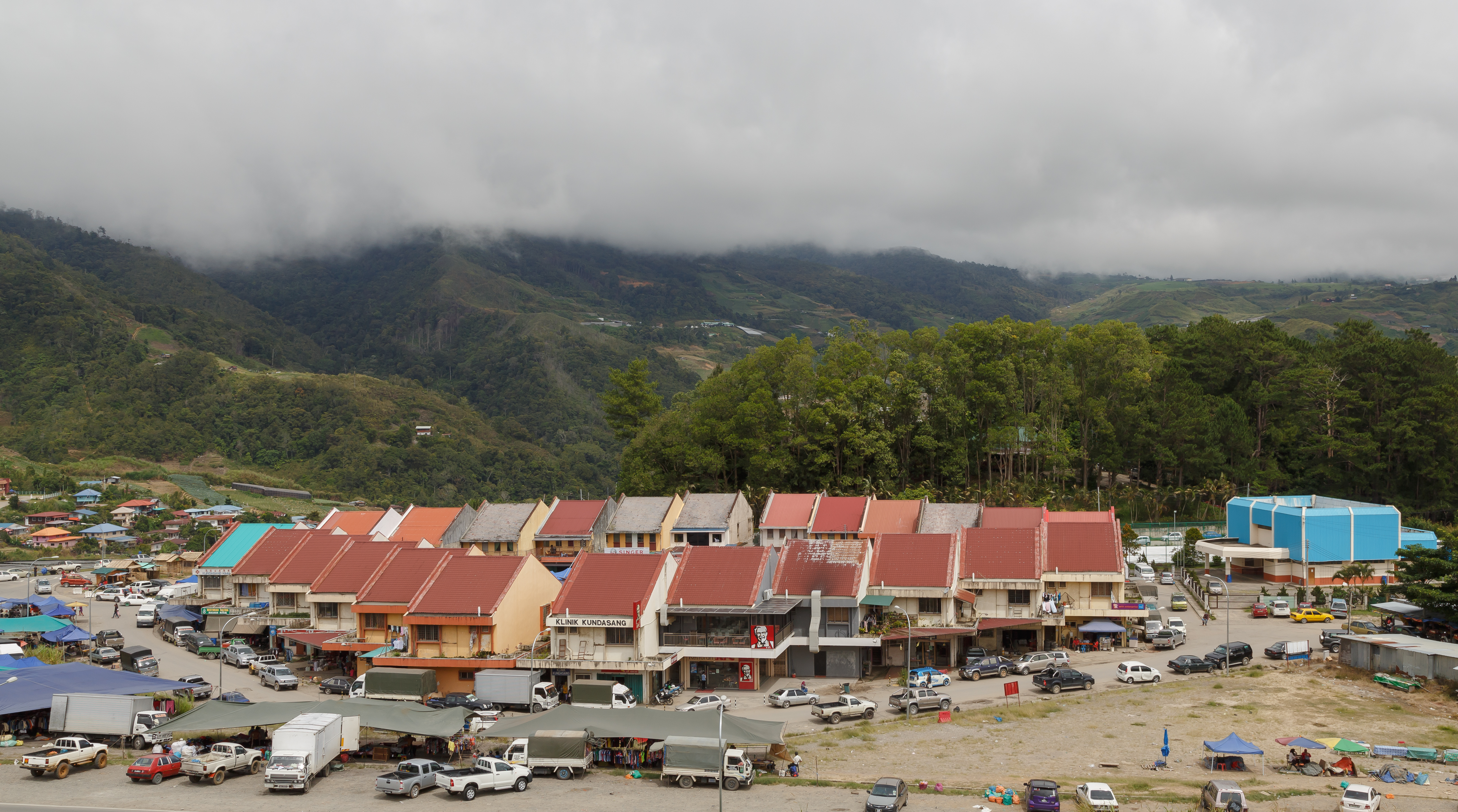 Kundasang, Sabah, Malaysia: Kundasang town. The blue building is the town hall.